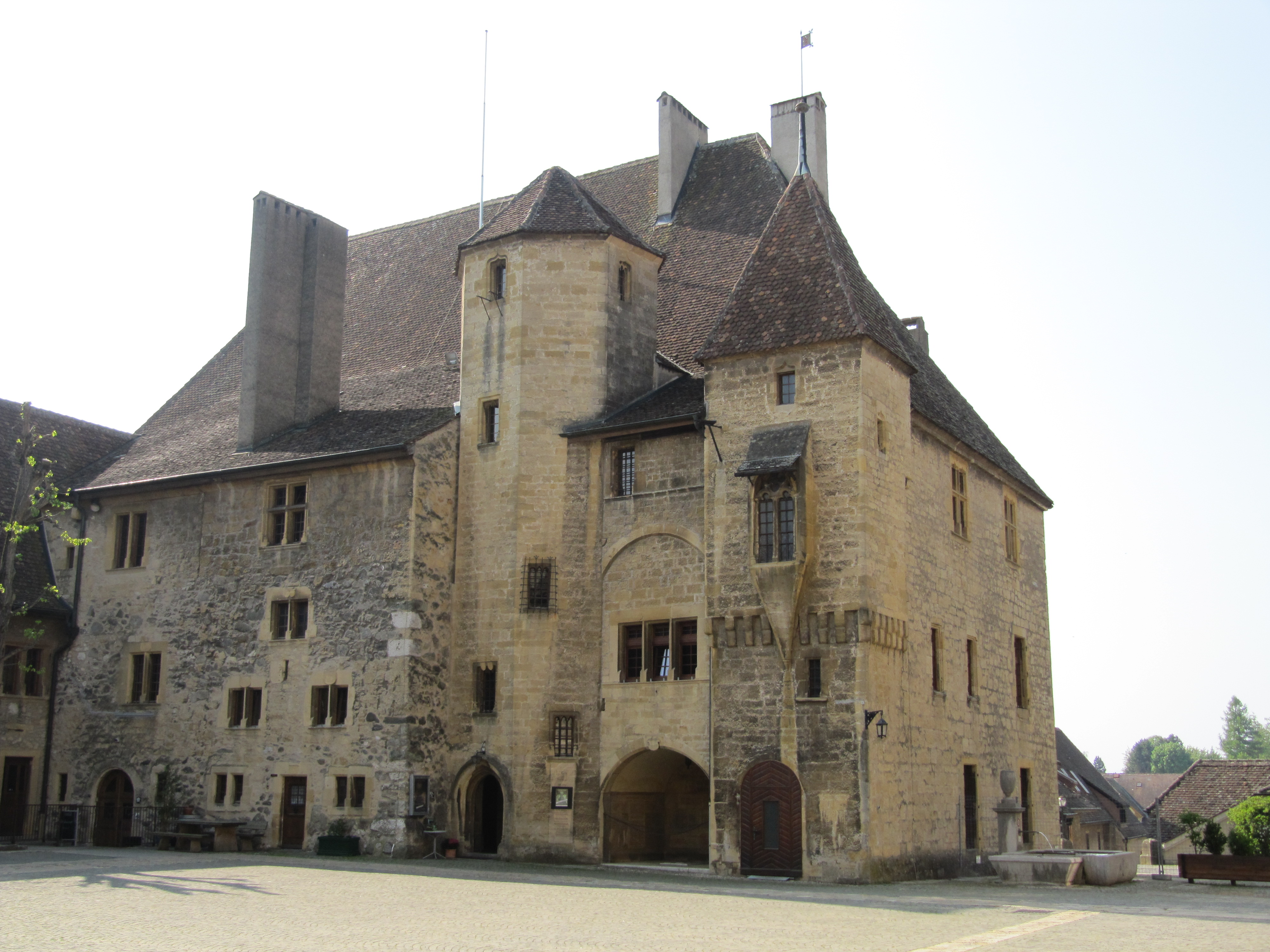 Inner yard of the Castle in Colombier (Switzerland). Cour intérieur du Château de Colombier (Suisse).